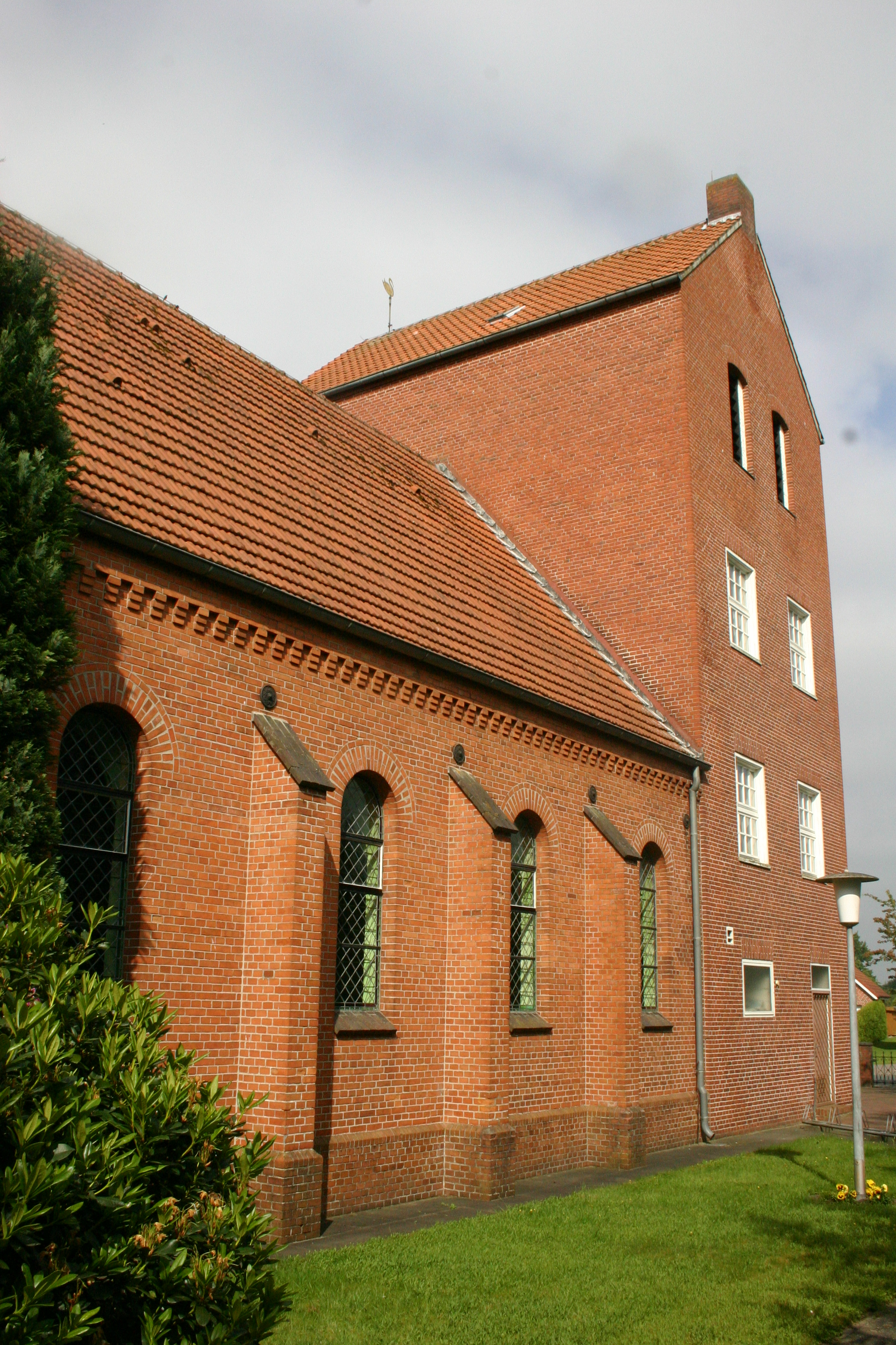 Historic Trinity Church in Langholt, district of Leer, East Frisia, Germany